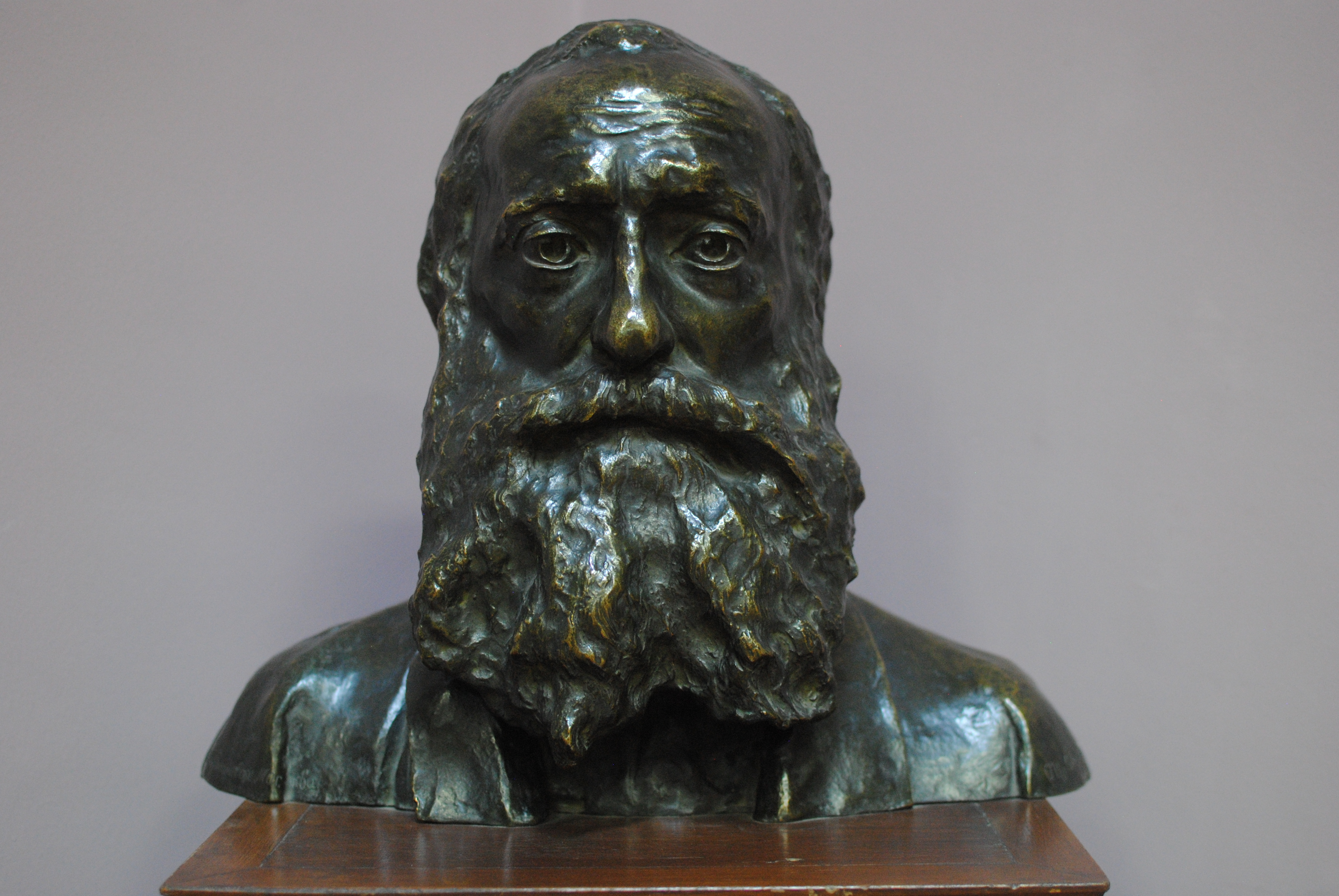 Bust of Ghevond Alishan by Andreas Ter-Marukian.